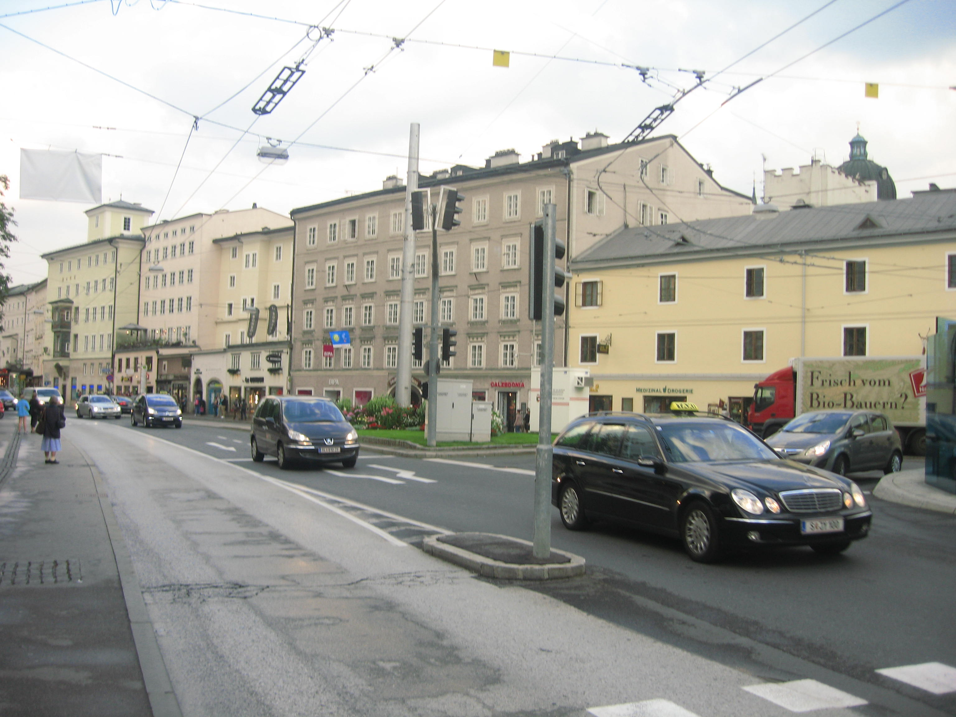 Griessgasse Salzburg